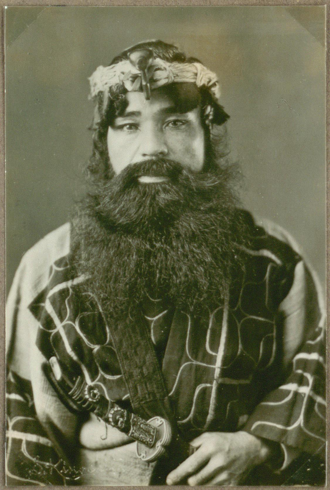 Full dress, Japan – Ainu, Hokkaido. Photographer: S. Kinoshita 1937. No. es_b_00528a